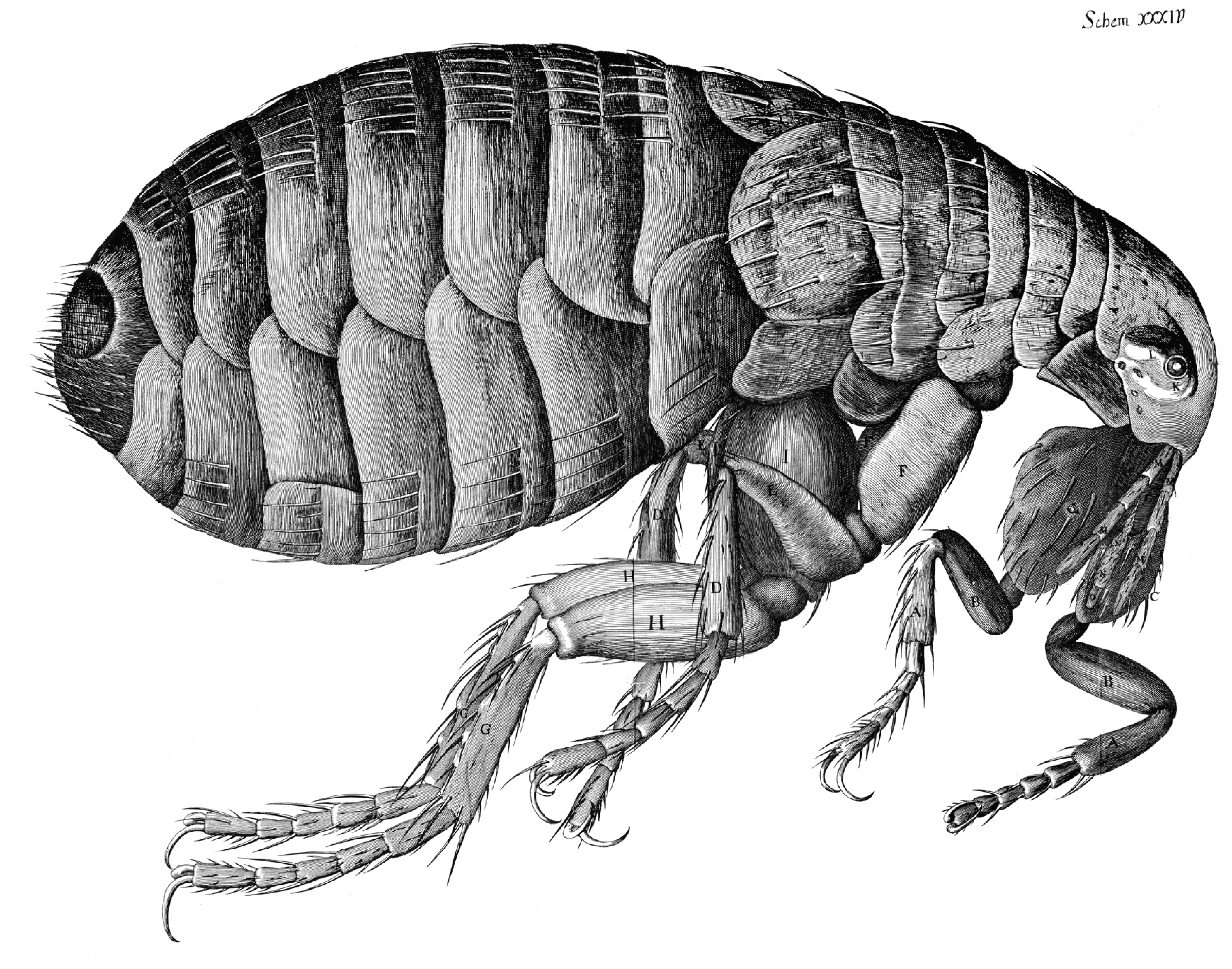 Scheme 34